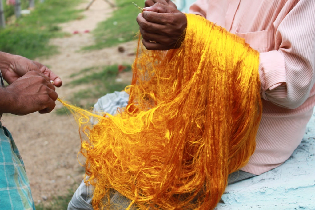 Weavers with silk thread at Kanchipuram